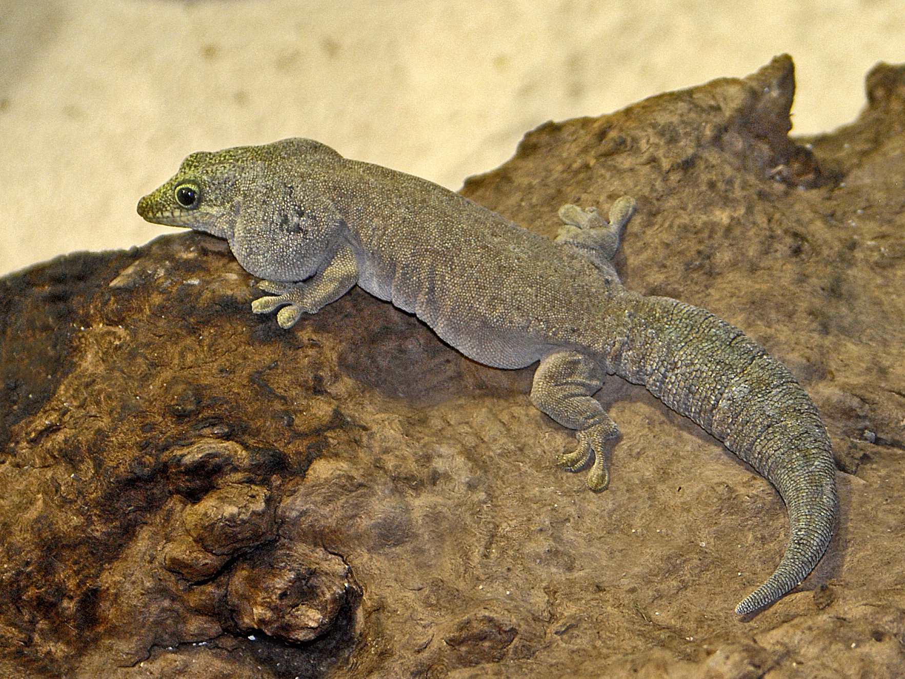 Phelsuma standingi at the Aquarium of Genova . Female with prominent endolymphatic chalk sacs